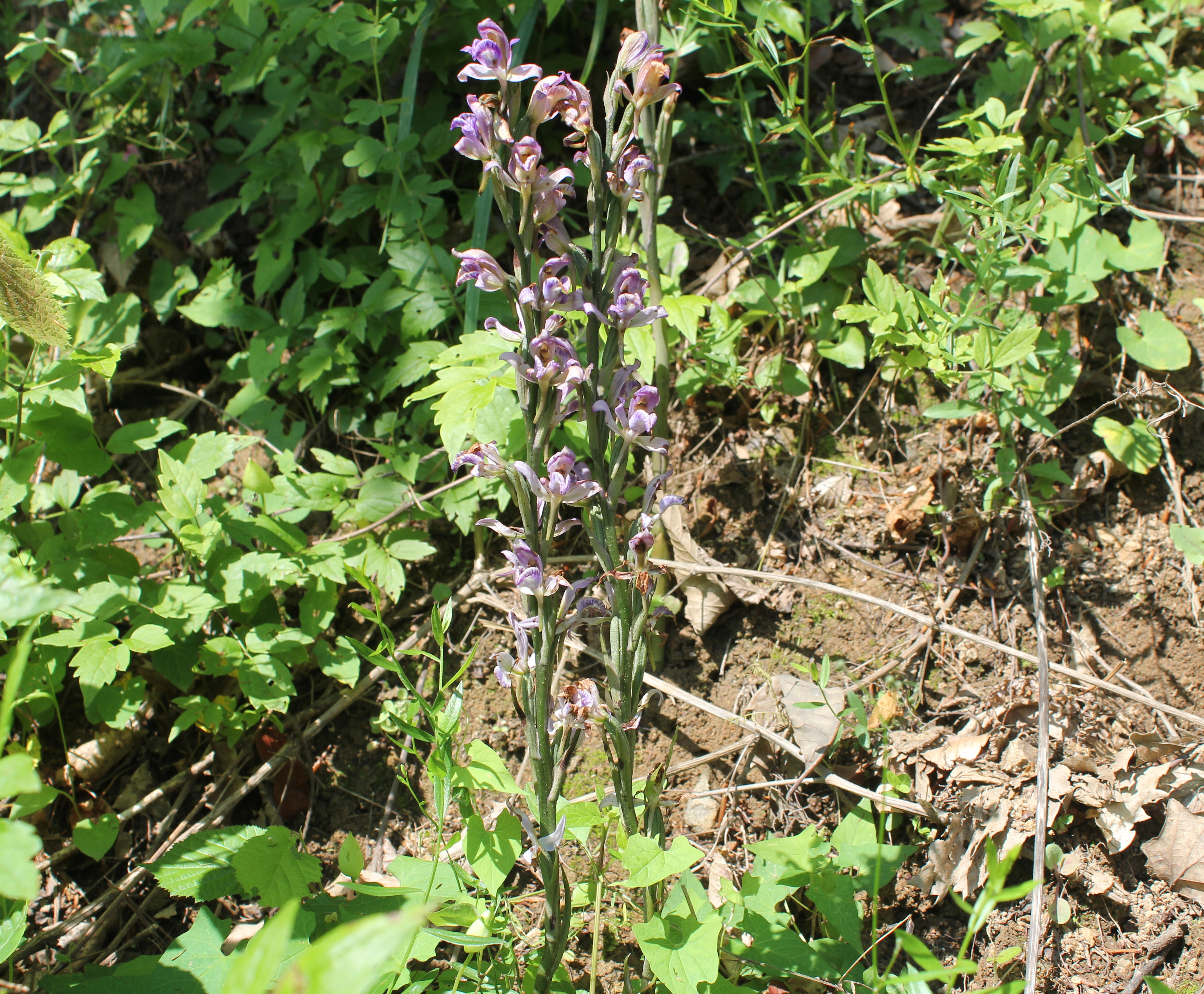 Limodorum abortivum scape